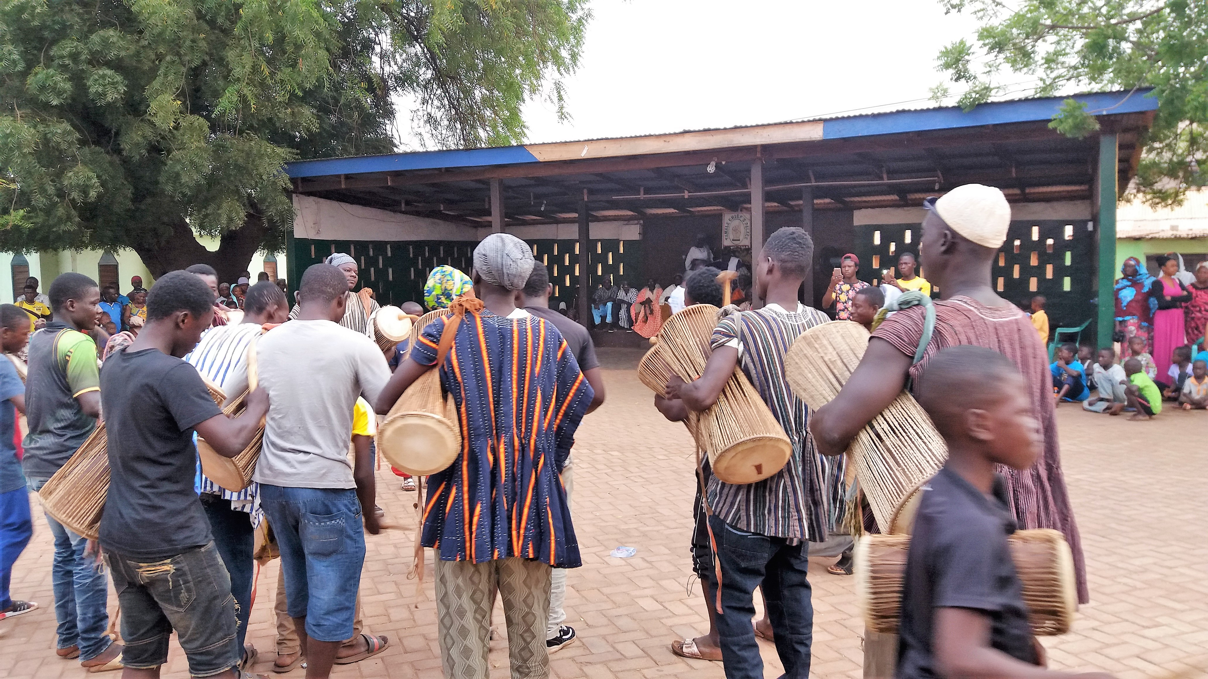 Drummers at Tamale Chief Palace.